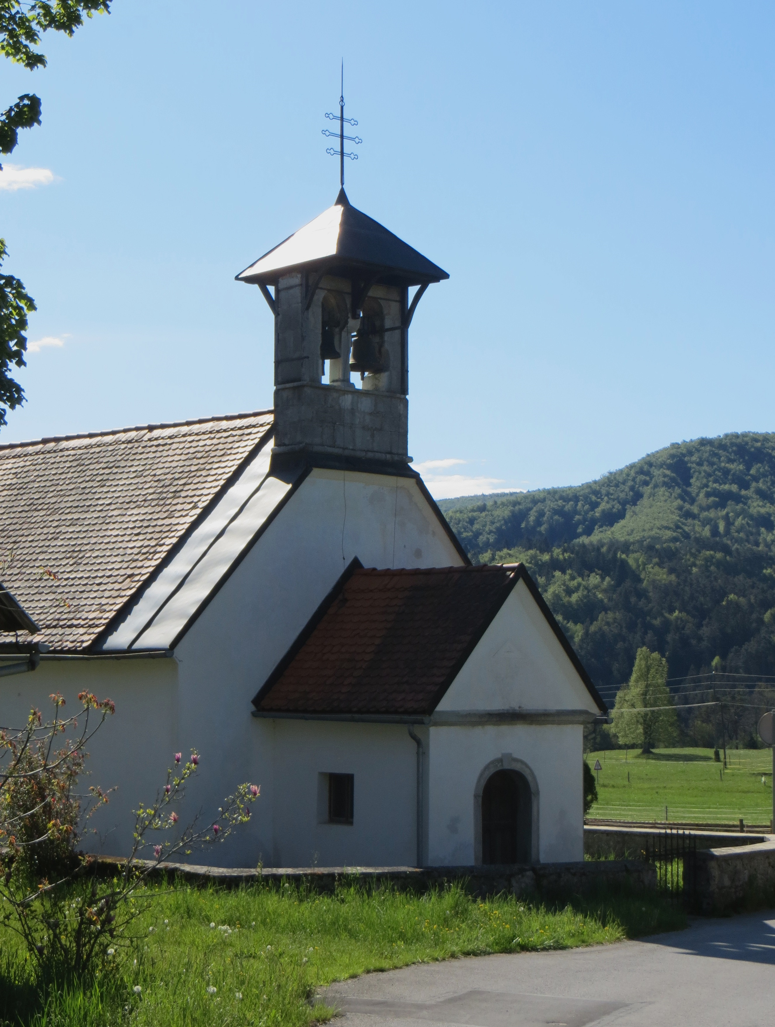 Saint Thomas's Church in Topol pri Begunjah, Municipality of Cerknica, Slovenia